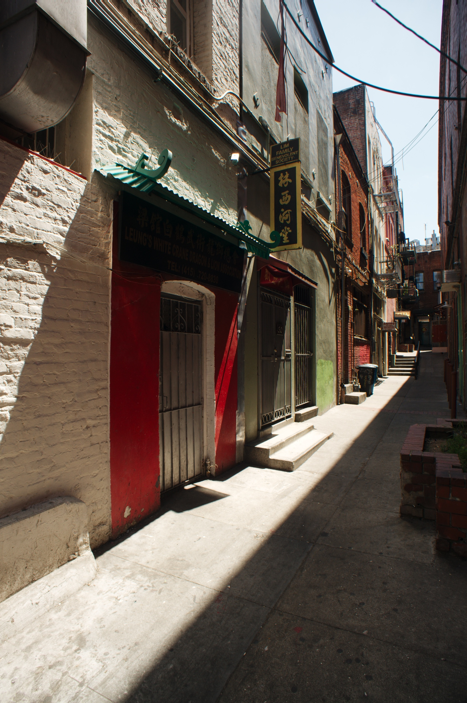 In the setting, just inside the mouth of the album.